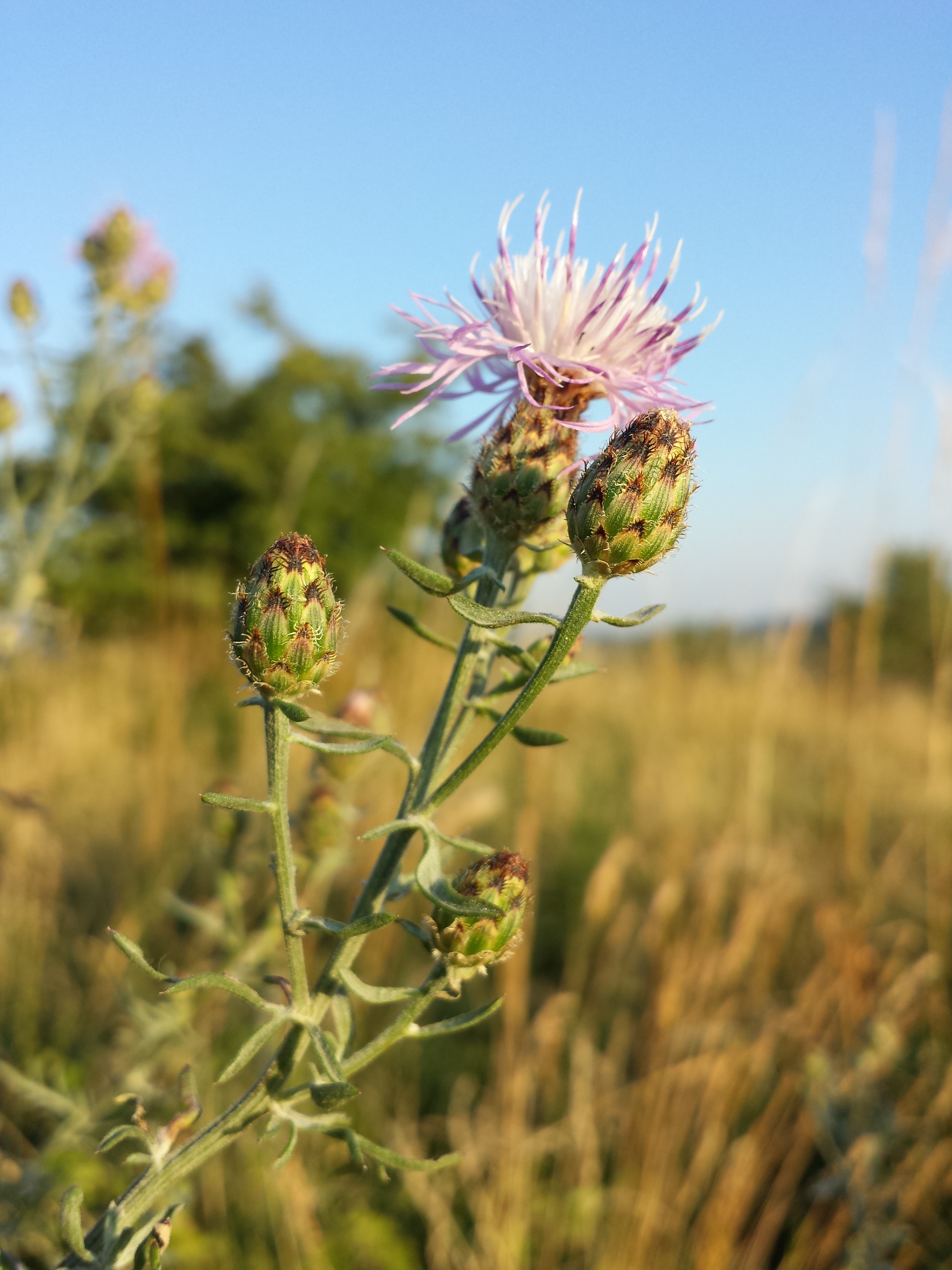 Inflorescence Taxonym: Centaurea stoebe ss Fischer et al. EfÖLS 2008 ISBN 978-3-85474-187-9 Location: Steinberg near Niederhollabrunn, district Korneuburg, Lower Austria - ca. 375 m a.s.l. Habitat: semi-dry grassland